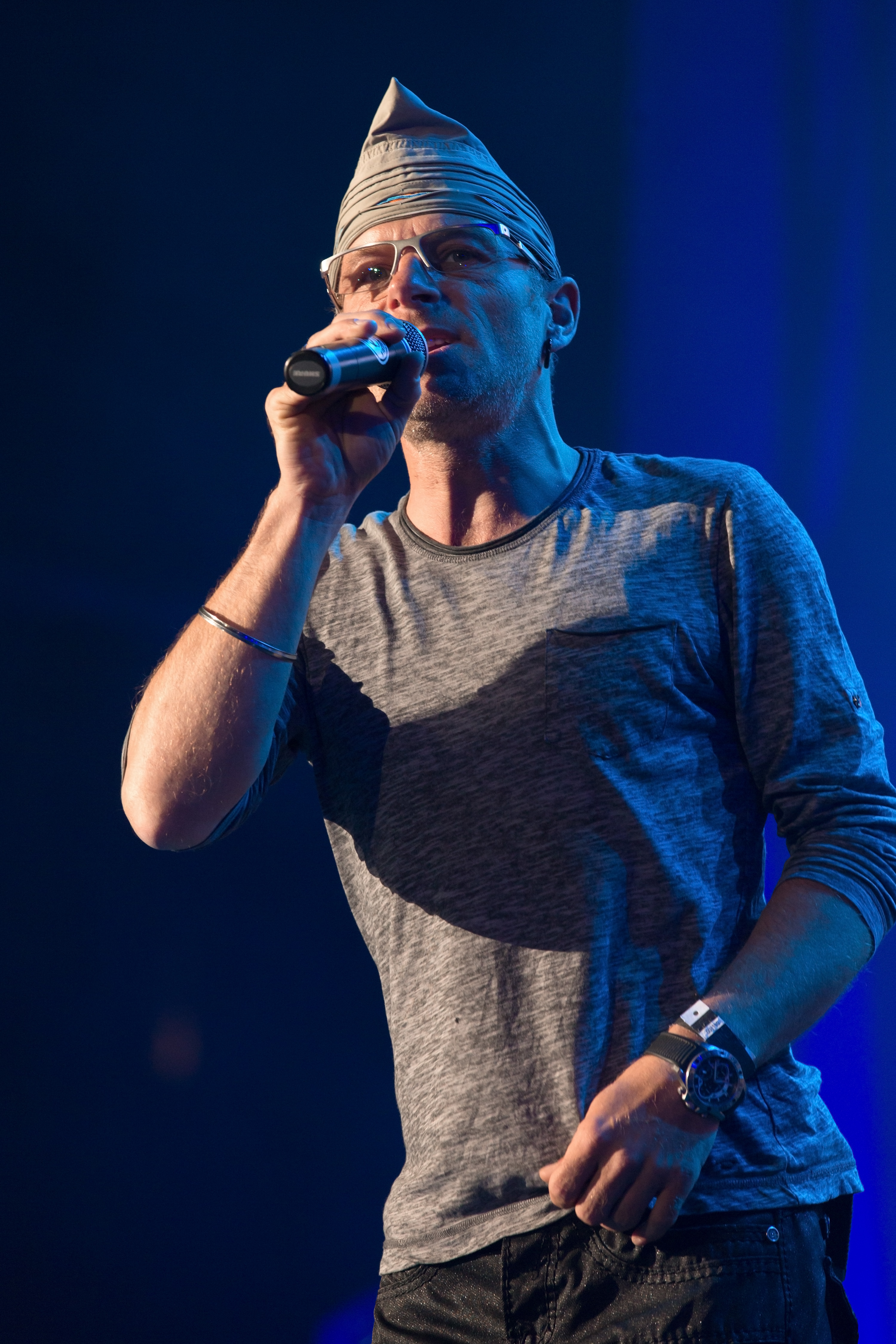 Thomas Forstner, participant of the Eurovision Song Contest 1989 and the Eurovision Song Contest 1991, with The Bad Powells, concert at Eurovision Village on Rathausplatz, a public event location of the Eurovision Song Contest 2015 in Vienna, Austria.